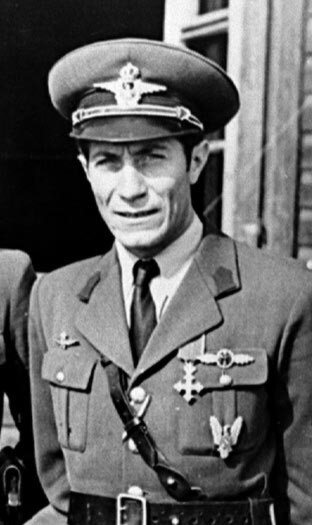 Ioan Dicezare awarded with the Order of Michael the Brave, Mariupol, August 30, 1943